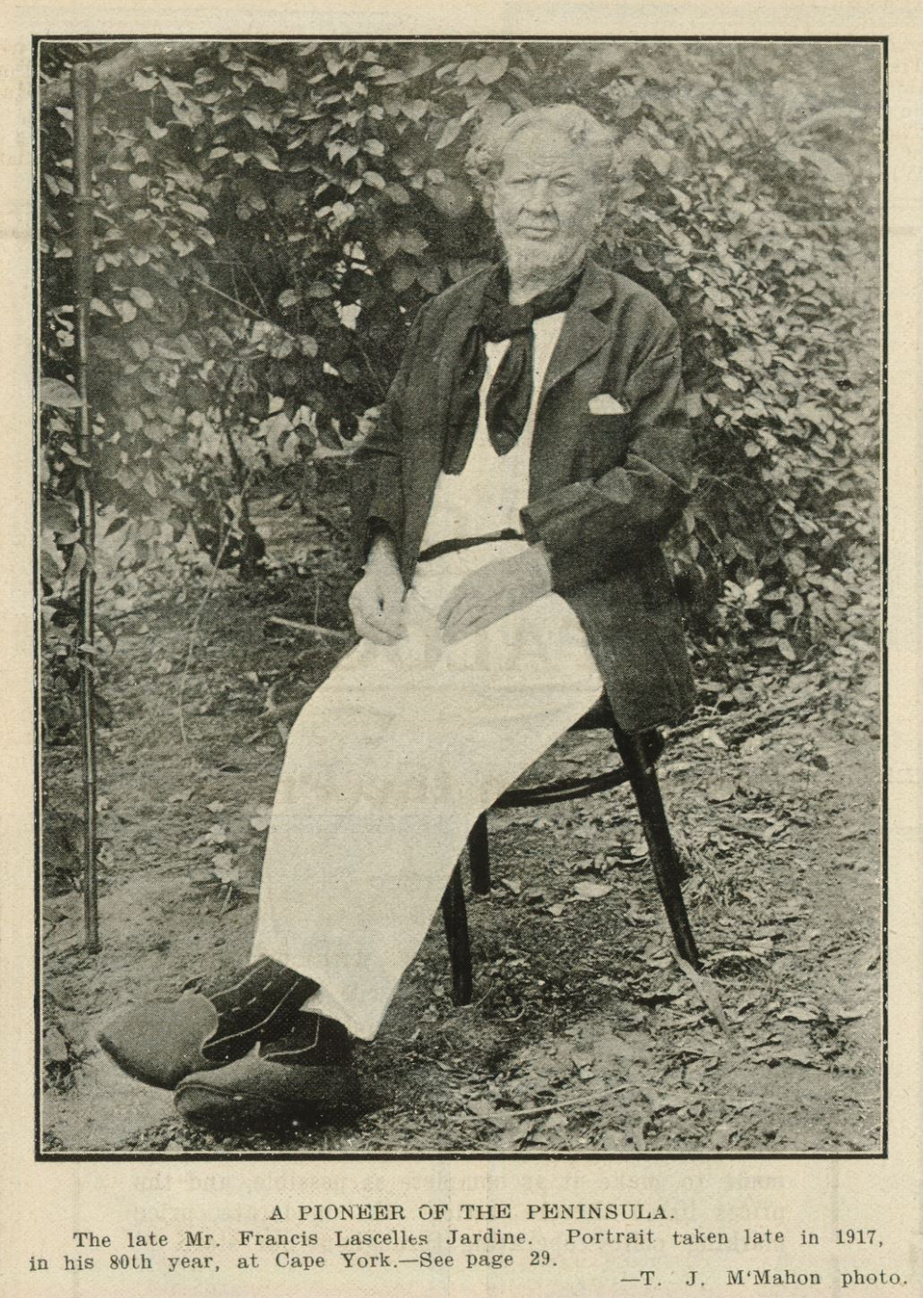 A pioneer of the Peninsula. The late Mr. Francis Lascelles Jardine. Portrait taken late in 1917, in his 80th year, at Cape York